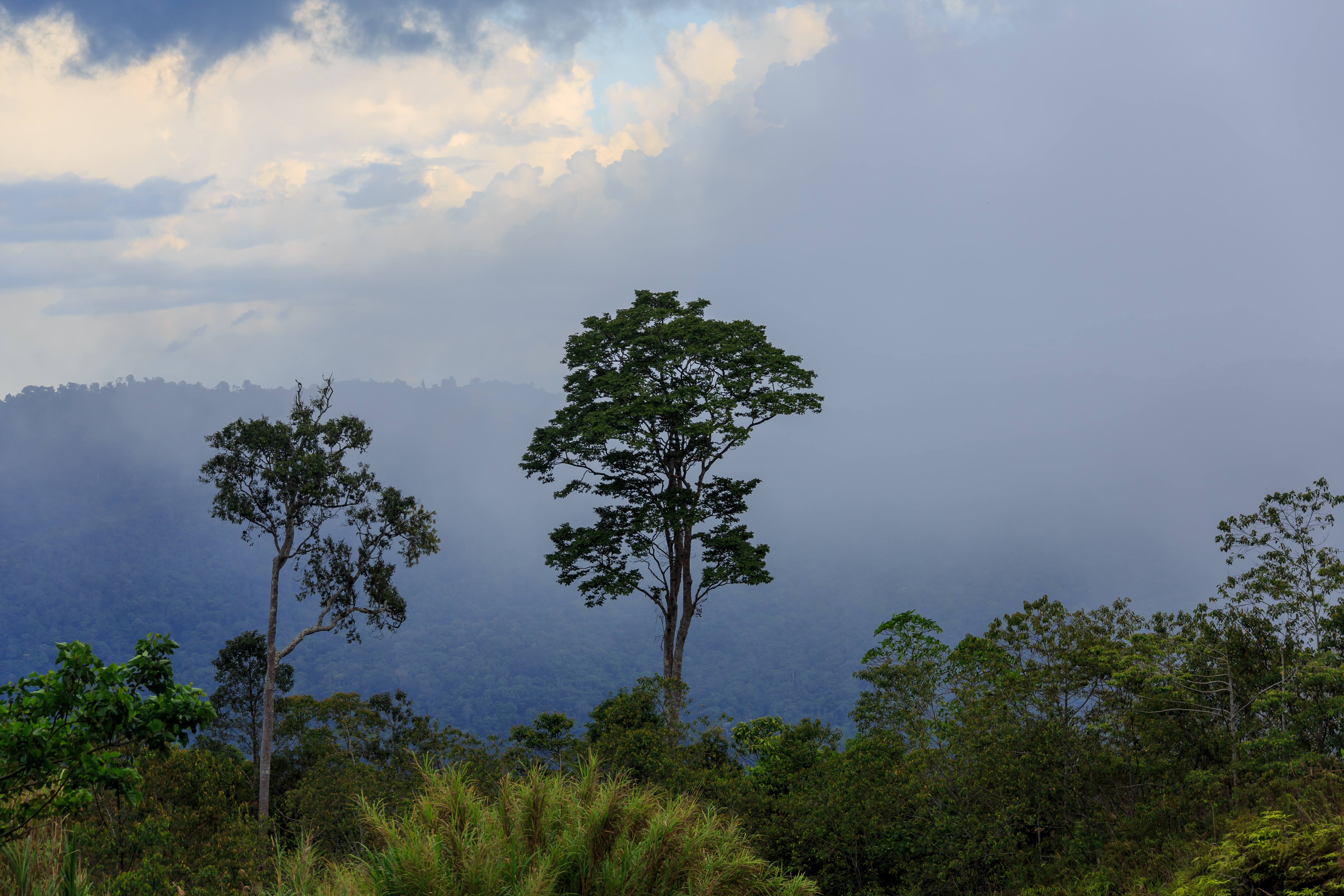 Keningau, Sabah: Rainforest short after a torrential afternoon rain